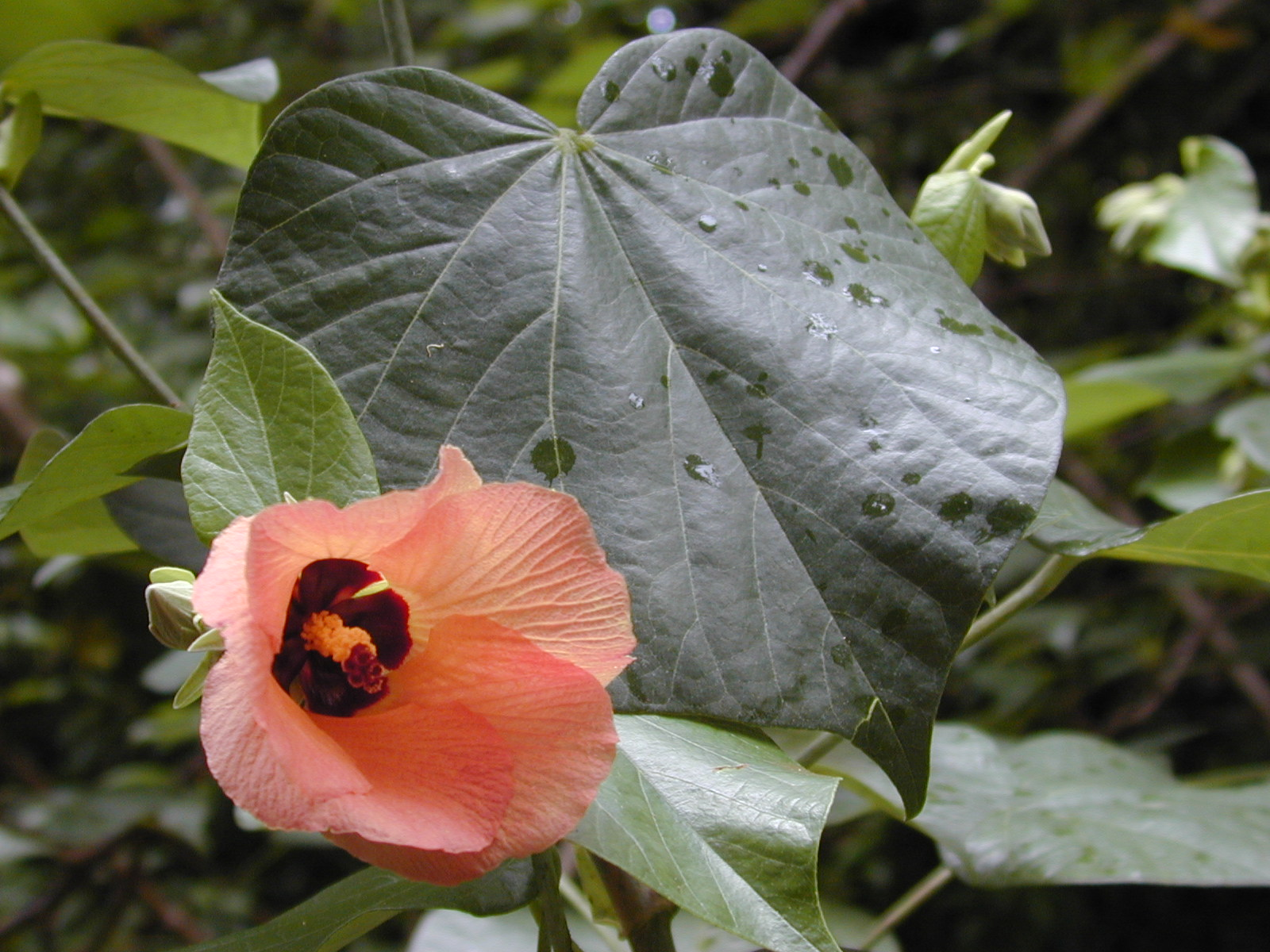 Hibiscus tiliaceus (orange flower leaf). Location: Maui, Wahinepee